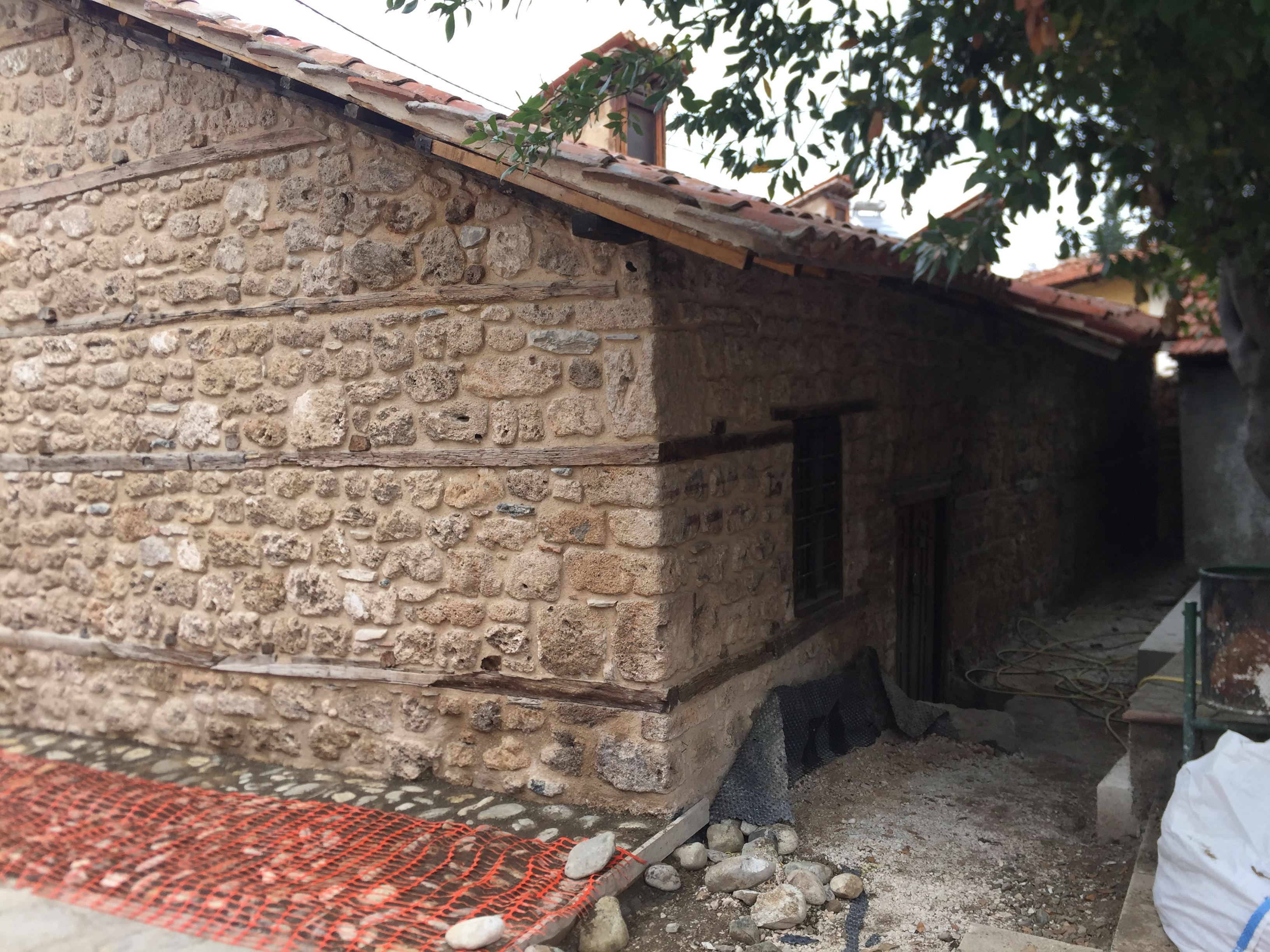 Church of Saint Vlasios«Ναός Αγίου Βλασίου»